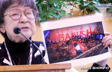 Atomic bomb survivor Kaz Suyeishi speaks about her experiences in Hiroshima.